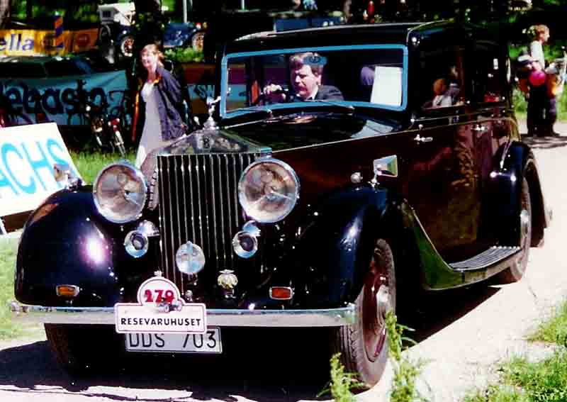 Rolls-Royce 1936